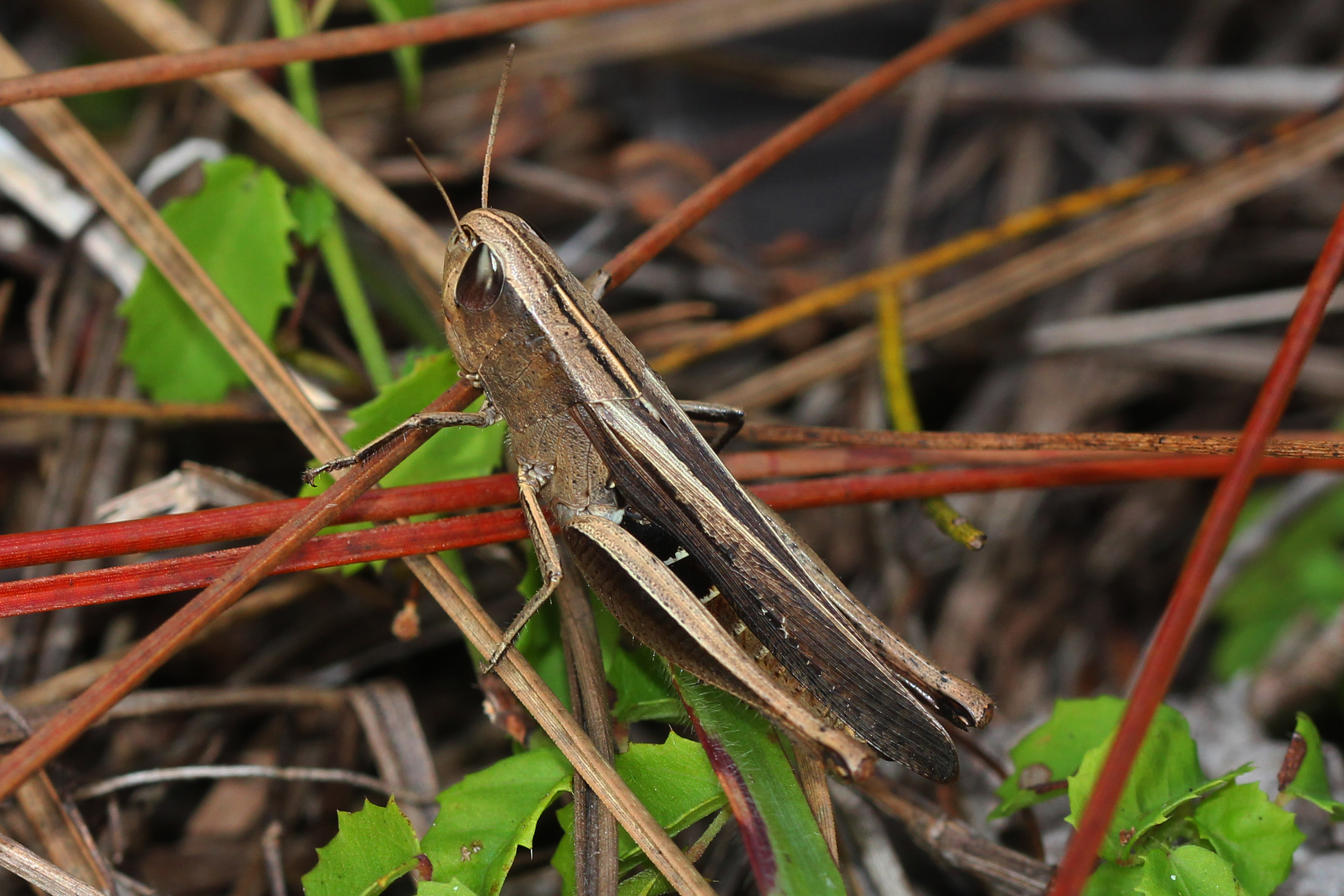 Brown Winter Grasshopper - Amblytropidia mysteca, Long Pine Key, Everglades National Park, Homestead, Florida